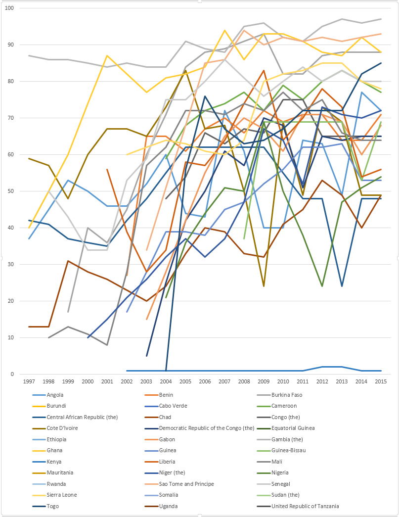 WHO-UNICEF estimates of YFV coverage in African countries, for the period 1997-2015.[1]